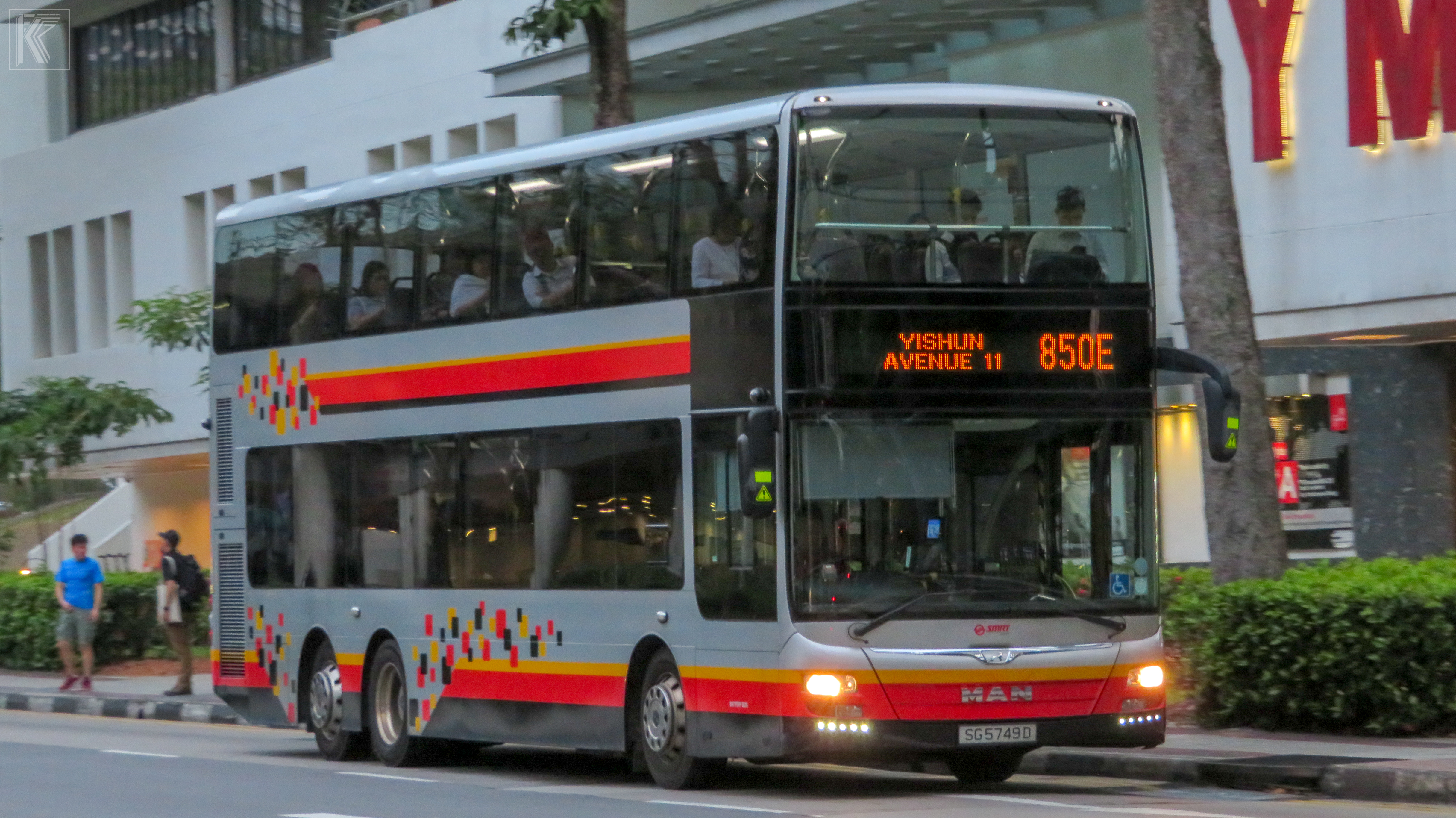 SG5749D - 850E This bus service has since been transferred to SBS Transit ops.